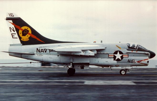 A Vought A-7E Corsair II aircraft of attack squadron VA-25 Fist of the Fleet landing on the aircraft carrier USS Ranger (CV-61). VA-25 was assigned to Carrier Air Wing Two (CVW-2) on the Ranger from 1970 until 1982 when the squadron transitioned to the McDonnell Douglas F/A-18A Hornet and was reassigned to CVW-14. The colourful markings were typical of the 1970s.